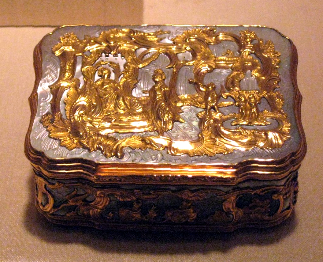 Snuffbox. Metropolitan museum Gold and mother-of-pearl German, ca. 1750 Item number: 17.190.1225